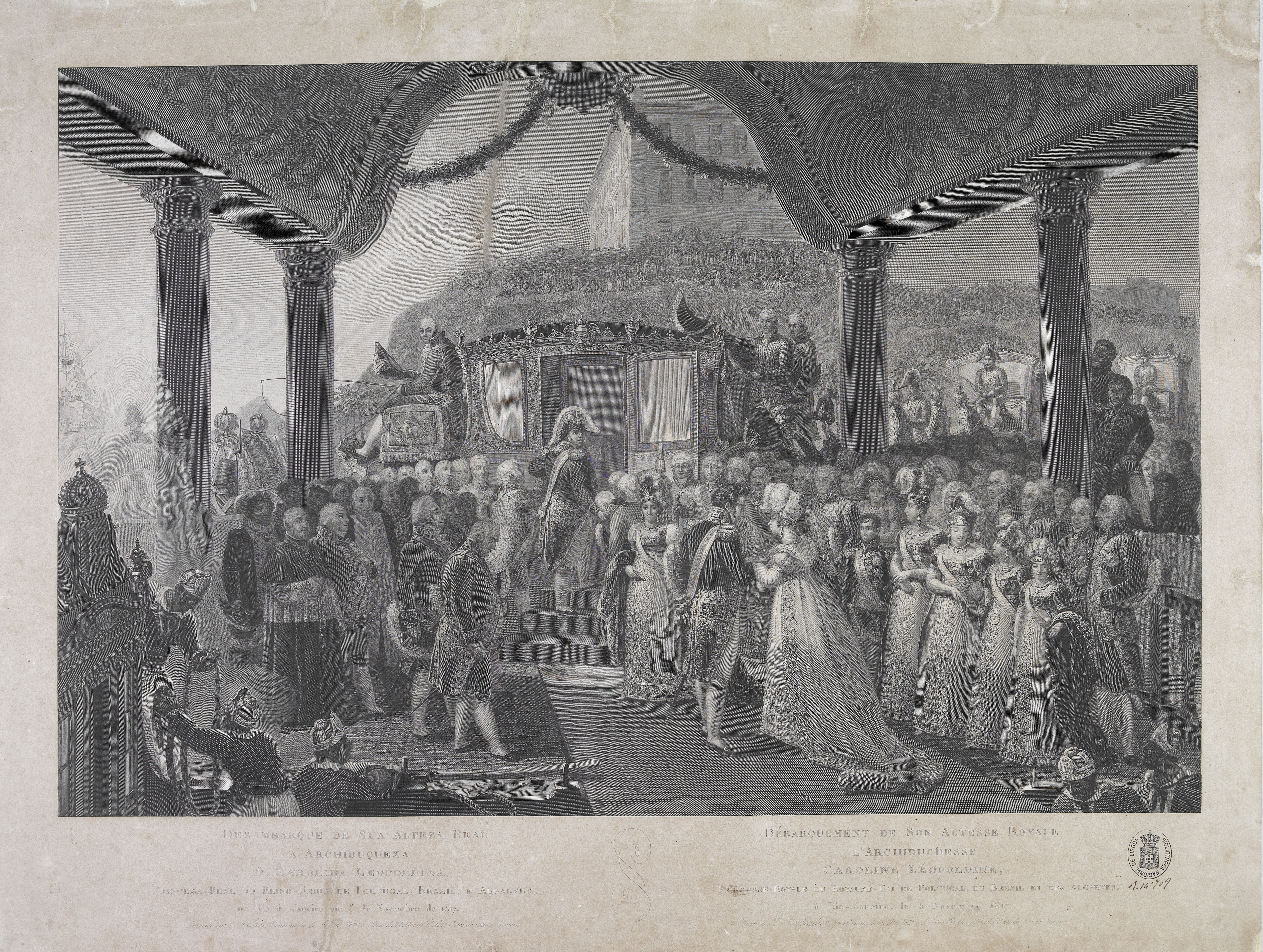 Landing of HRH Archduchess D. Carolina Leopoldina, Princess Royal of the United Kingdom of Portugal, Brazil and Algarves, in Rio de Janeiro on 5 November 1817.